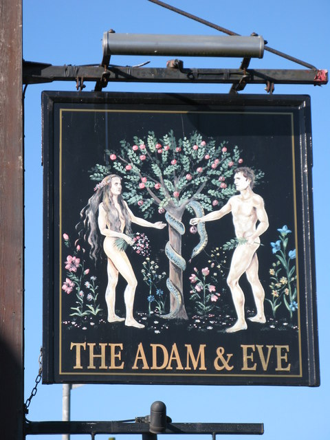 Sign for the Adam & Eve, Prudhoe, Northumberland See 1040178.